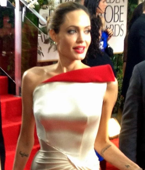 Angelina Jolie at the 69th Annual Golden Globes Awards 2012.